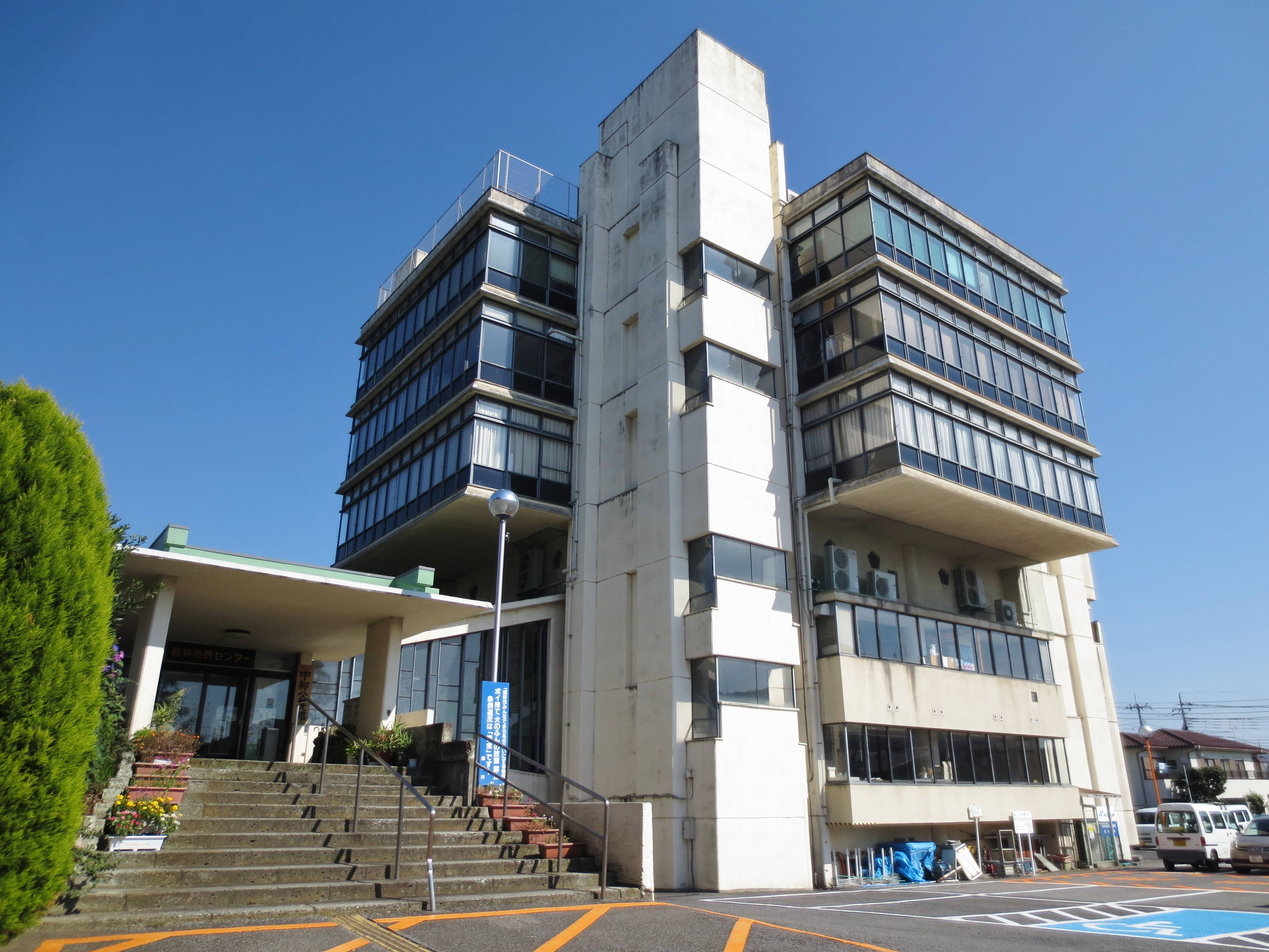 Tatebayashi Civic Center (Former Tatebayashi city office).